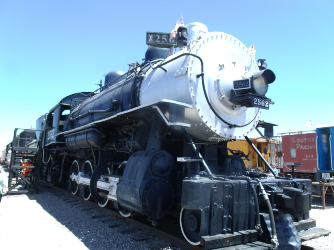 Southern Pacific Railroad Locomotive No. SP 2562 and Tender No. 8365 were built in 1900. It is on exhibit in the Arizona Railway Museum located at 330 E. Ryan Rd in Chandler, Arizona. The locomotive is a Model: BLW 2-8-0, built as: SP 2562 (2-8-0) by the Baldwin Locomotive Works, Serial Number: 29064. The locomotive and tender are listed in the National Register of Historic Places.